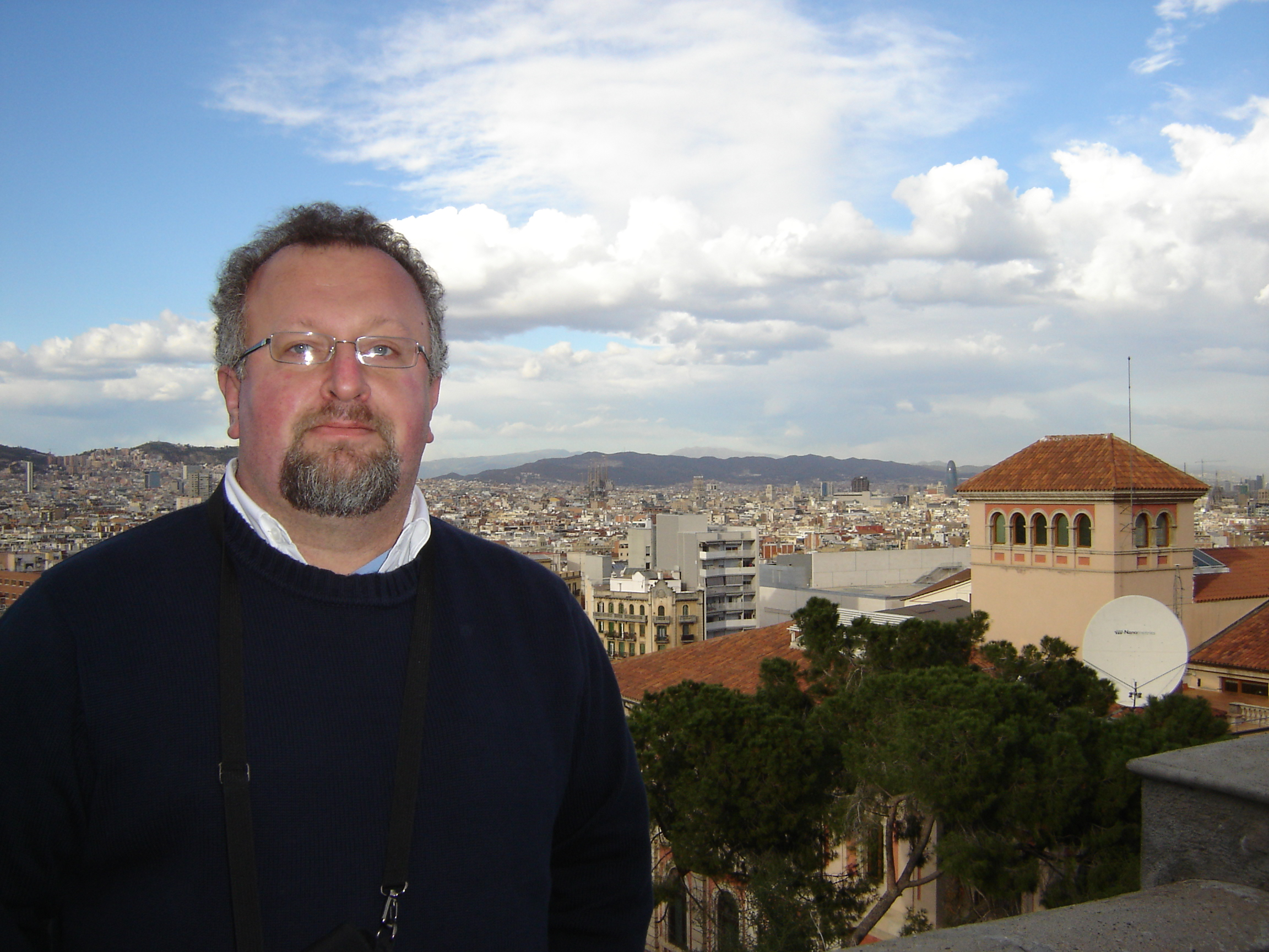 In Barcelona, February 2008.